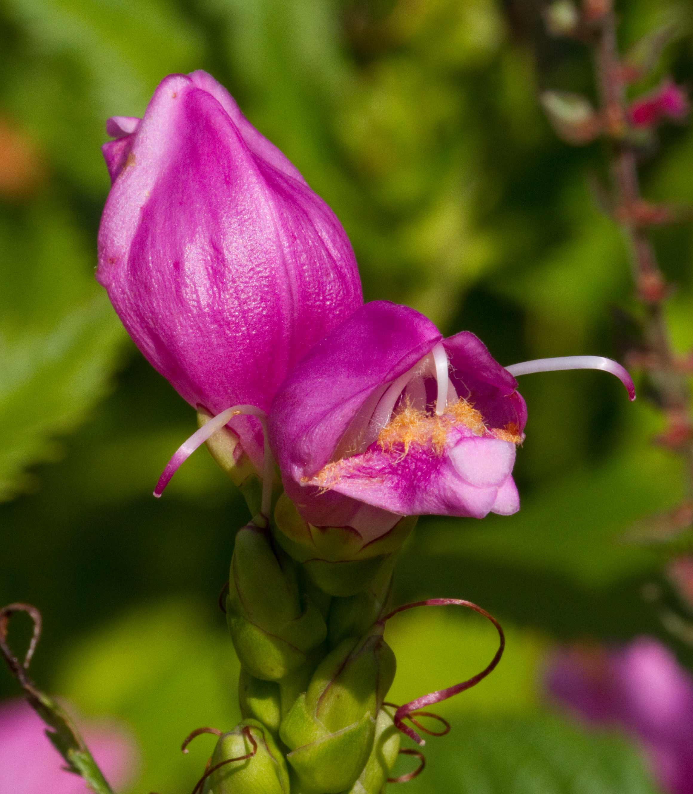 Flower